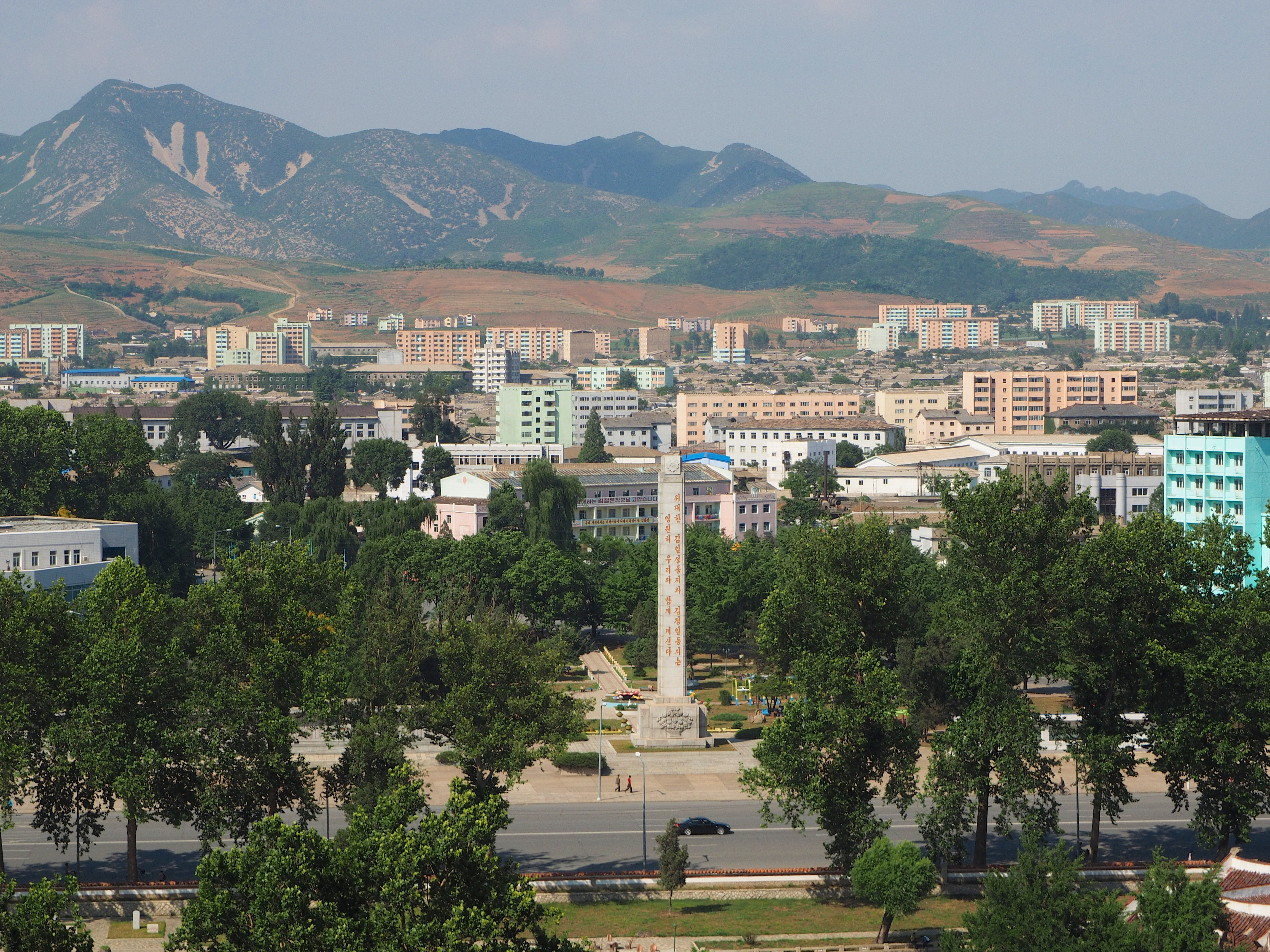 View of Sariwon, June 2014